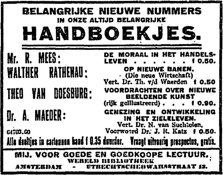 Advertisement by the Mij. voor Goede en Goedkope Lectuur (Wereldbibliotheek), Amsterdam.